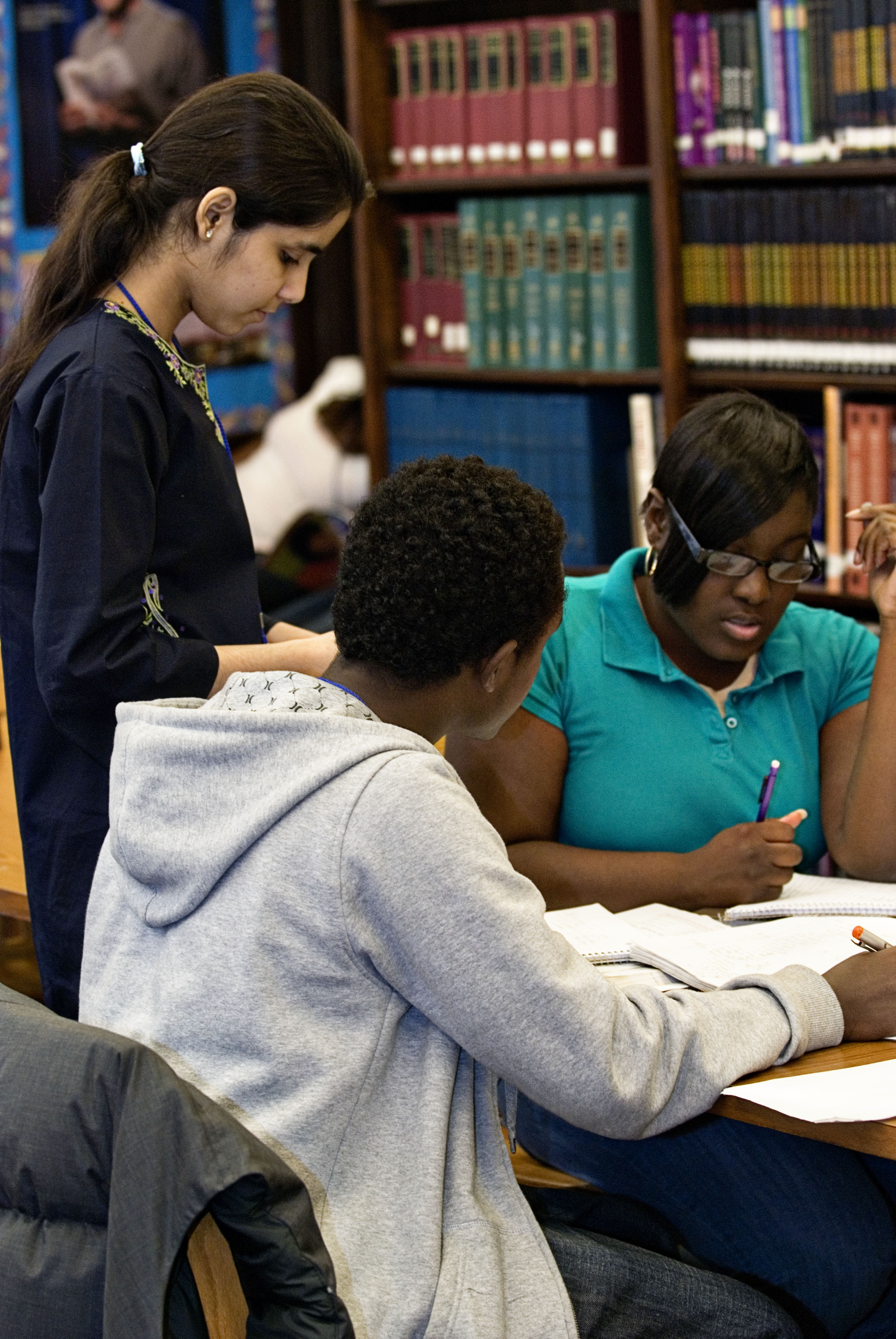 Sullivan Tigers at work after school with Columbia College programming.jpg